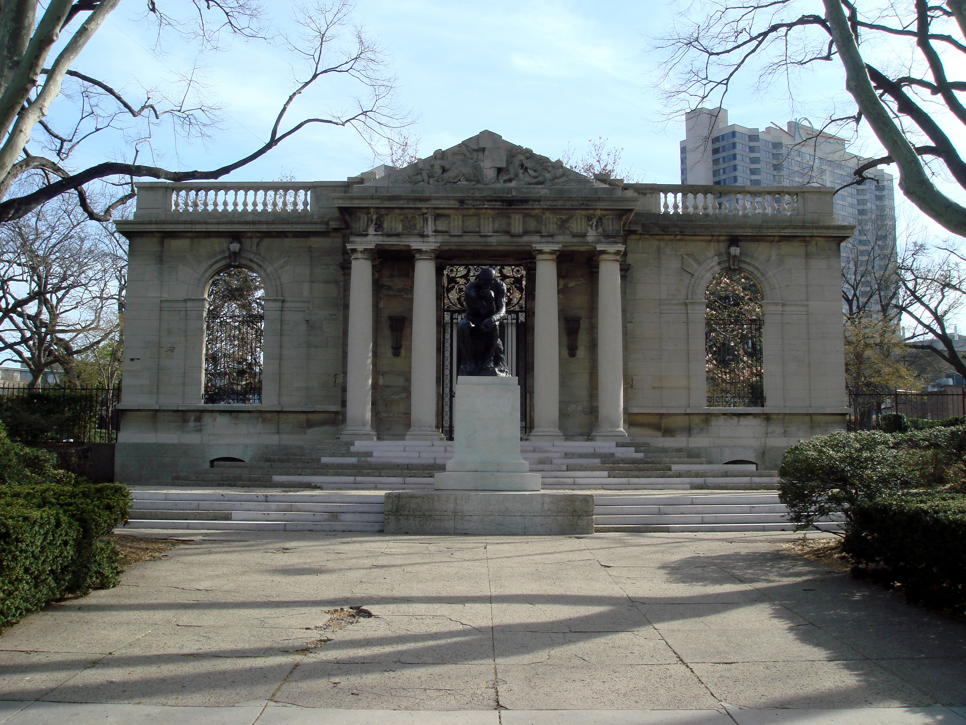 Rodin Museum, Philadelphia. Paul Philippe Cret Architect.